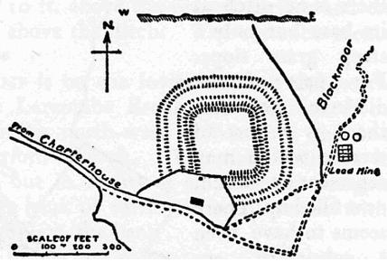 Map of earthworks at Charterhouse Camp, Somerset, England.